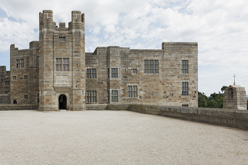 Castle Drogo in the Teign Valley Drewsteignton, Devon, England. Designed by Sir Edwin Lutyens in granite to create Julius Drewe's "ancestral home". Grade I listed. Building completed in the 1920s.